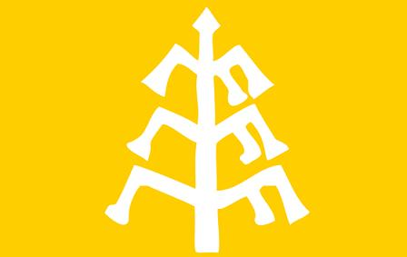 fictitious flag of the Kara-Khanid Khanate Empire, designed in 1969 by Akib Özbek